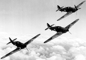 Three Royal Air Force Hawker Hurricane Is in flight.